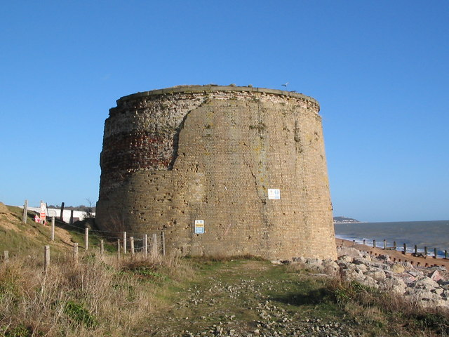 Martello Tower 14